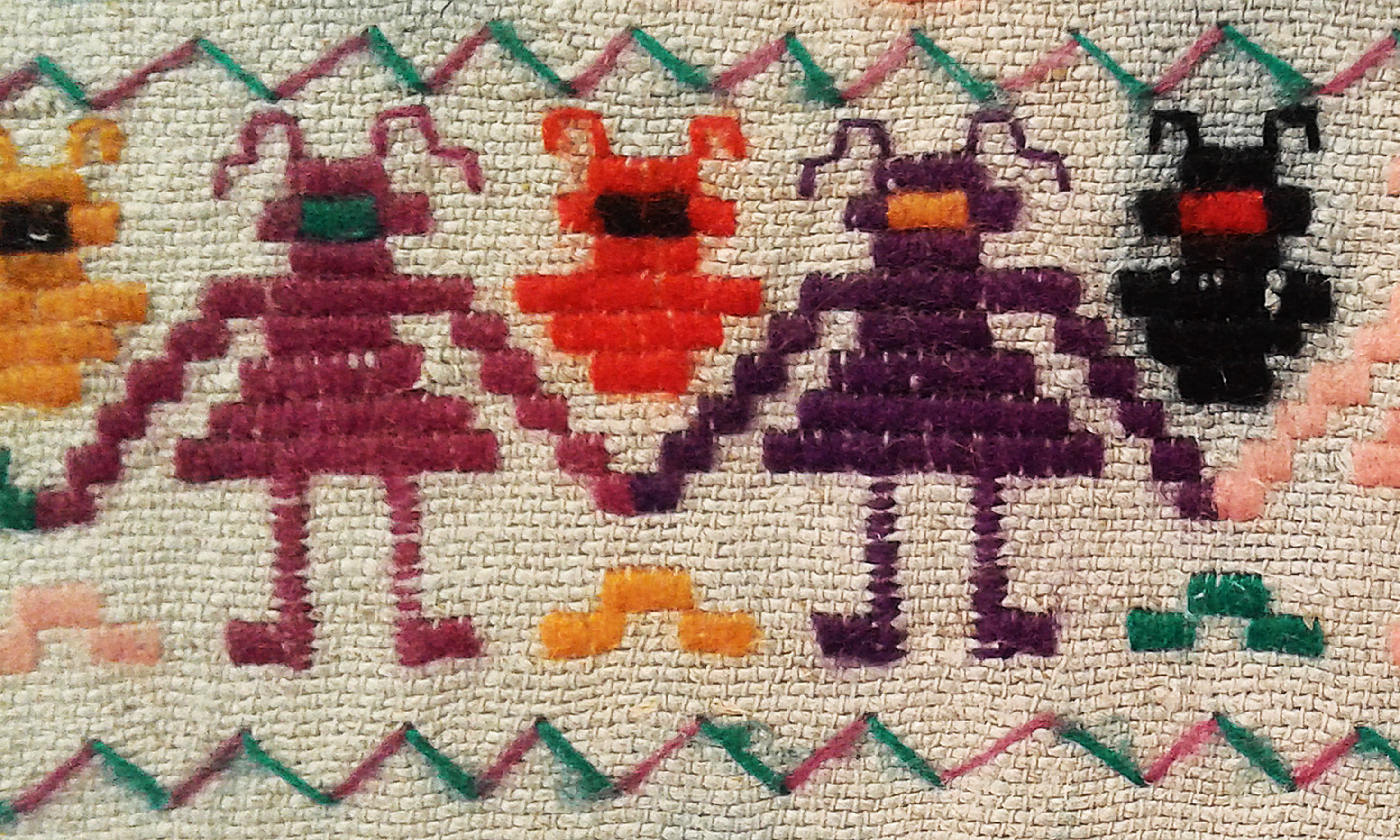 «Ancient aliens». Embroidered towel, Vinnytsia region Pishchans'kyi Raion village Studena, (1900-s). Honchar Museum (Ukraine).